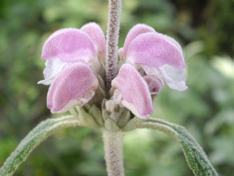 Phlomis purpurea